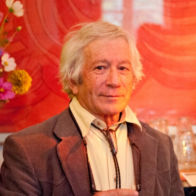 Dr. Mark Nelson (born 29 May, 1947, in Brooklyn, New York) is a founding director of the Institute of Ecotechnics. He has worked in closed ecological system research, ecological engineering, restoration of damaged ecosystems and wastewater recycling, for several decades. He is based in Santa Fe, New Mexico, U.S.A.